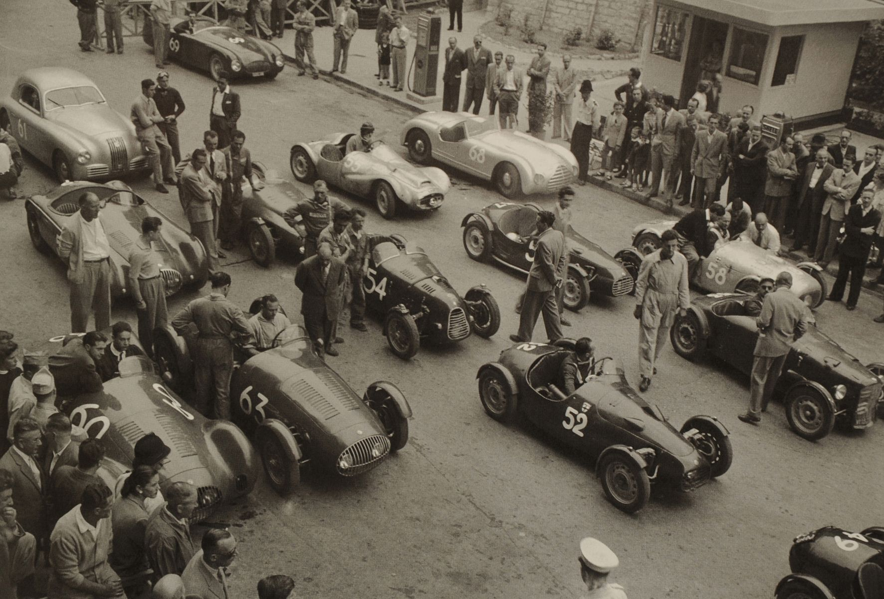 Before 1951 Trieste-opicina hillclimb. Cars/drivers unknown.